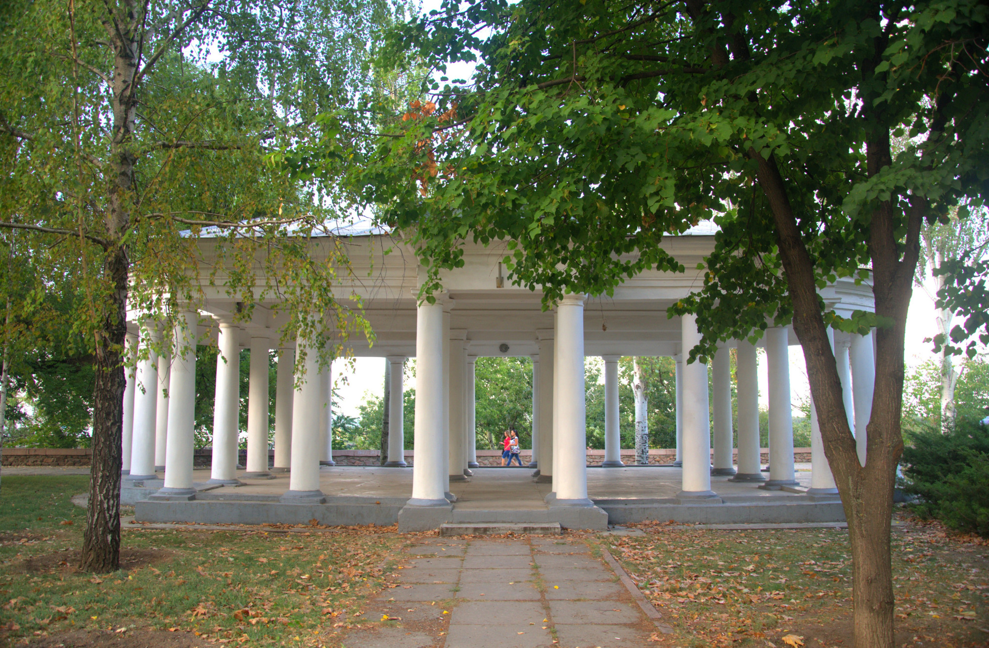 Rotonda, Mykolayiv, Ukraine